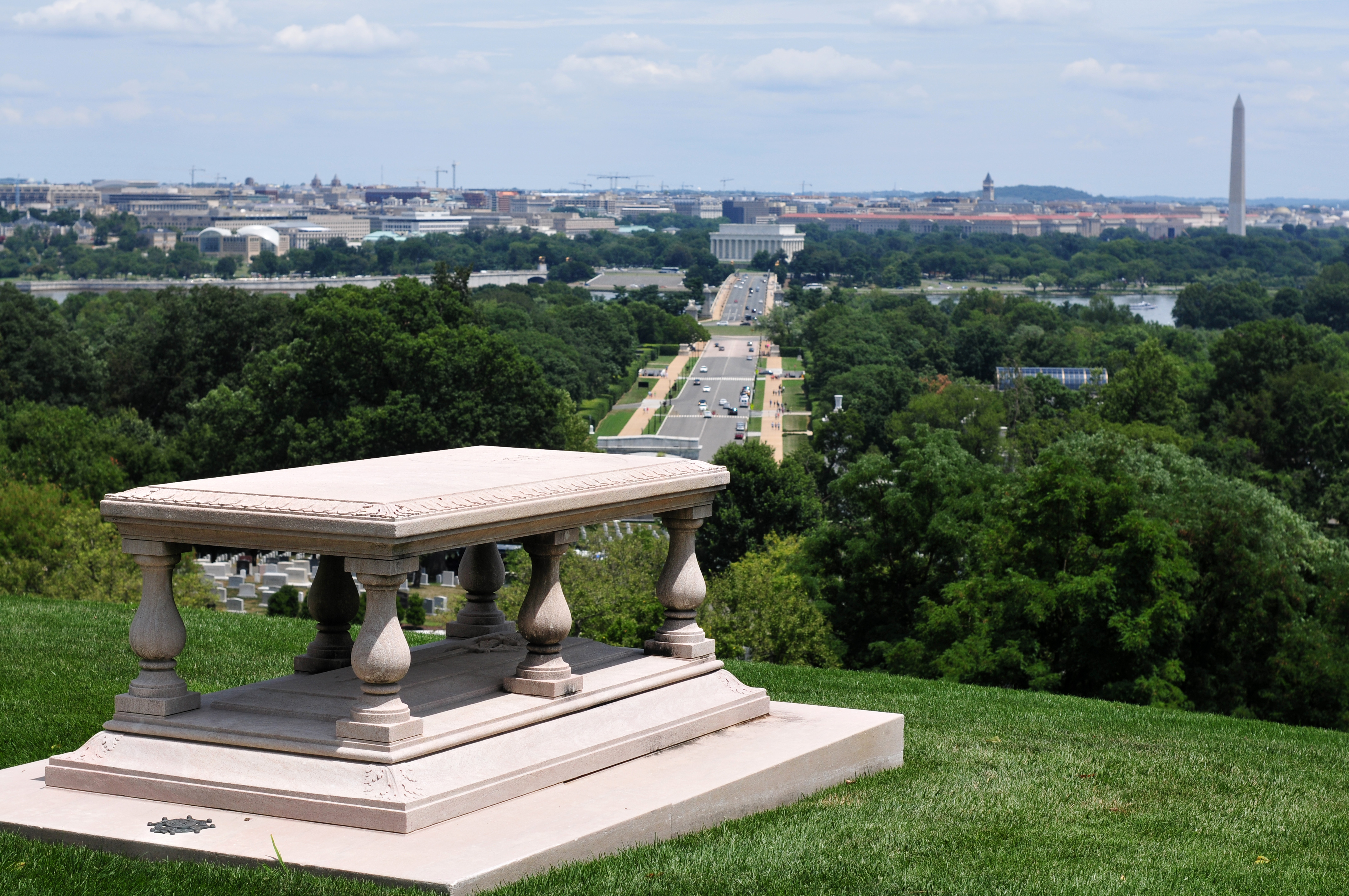 Grave of Pierre L’Enfant at National Cementery, Arlington VA